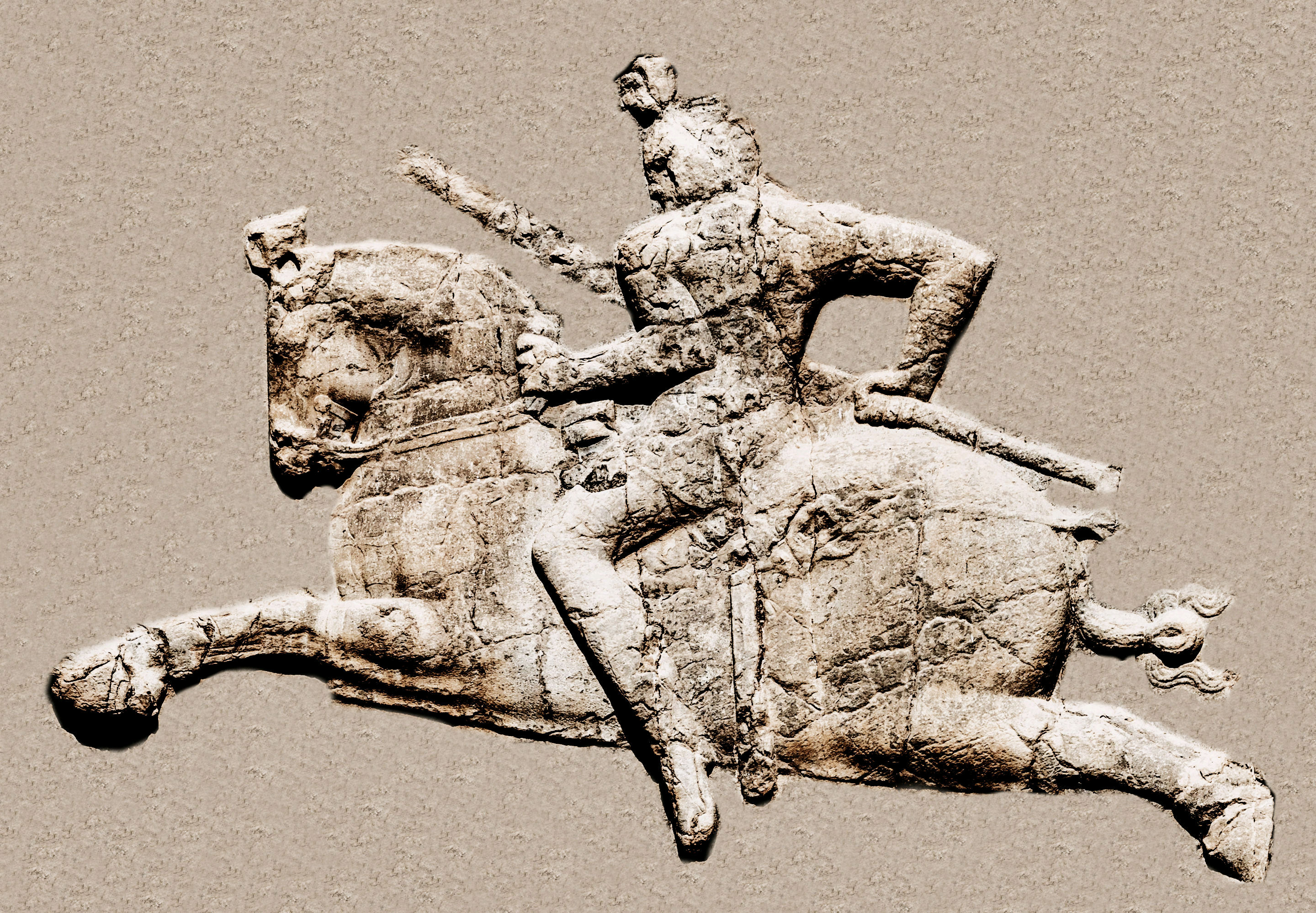 Hormizd I Kushanshah on the Naqsh-e Rustam Bahram II panel (contoured)